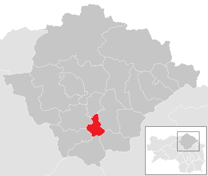 district Bruck-Mürzzuschlag